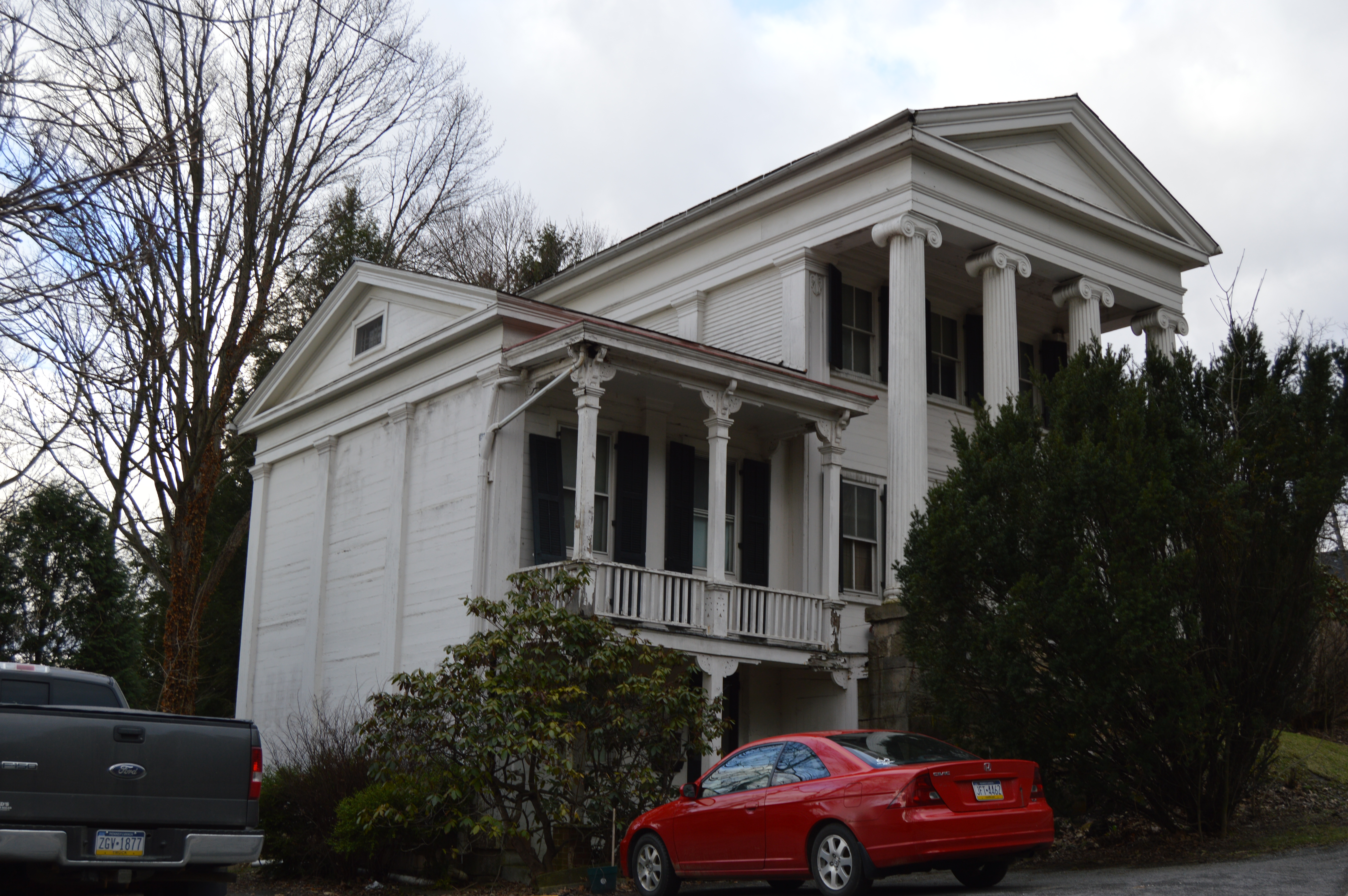 Front and southeastern side of the Joseph E. Hall House, located at 419 W. Main Street (U.S. Route 322) in Brookville, Pennsylvania, United States. Built in 1848, it is listed on the National Register of Historic Places.